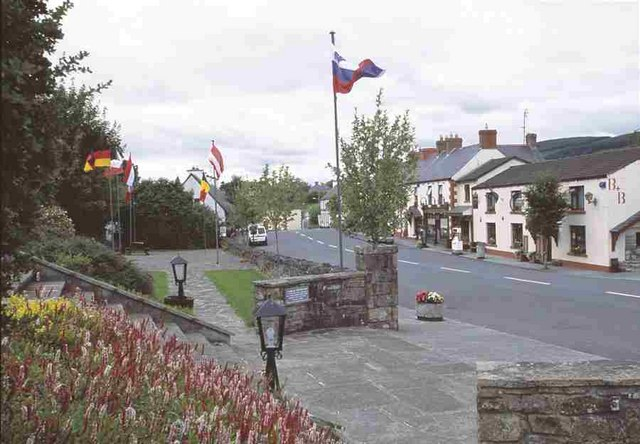 Keadue Roscommon Taken from entrance of O'Carolan Park